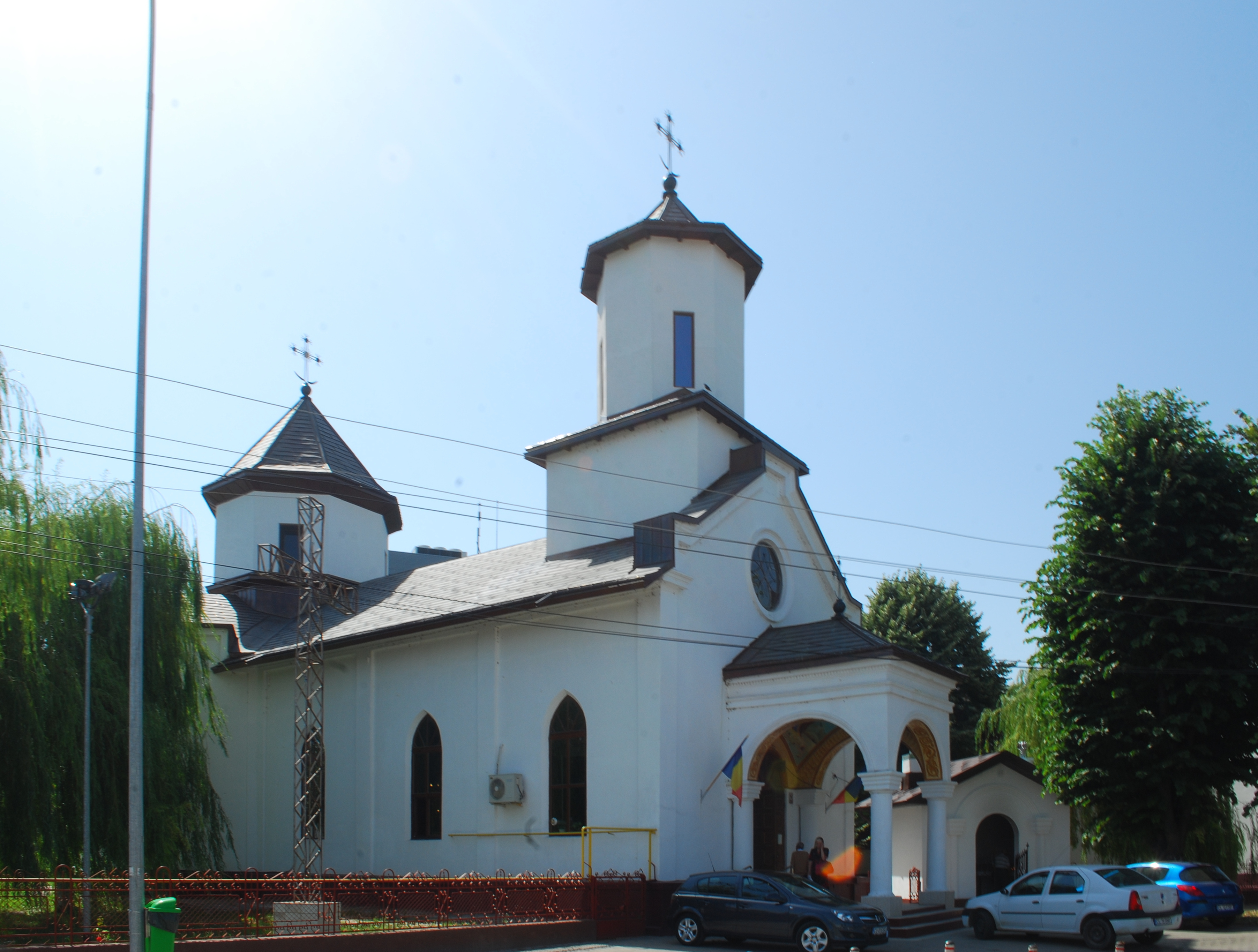 Saints' Constantine and Helena (Volna) church in Călărași, Romania